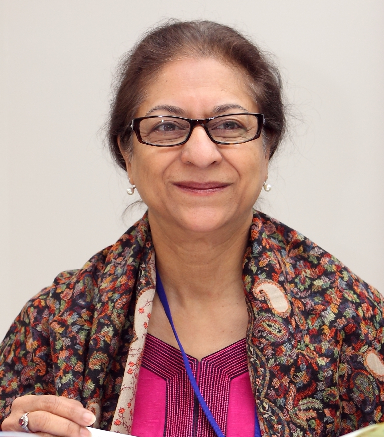 Asma Jahangir, a prominent Pakistani human rights lawyer and activist. She has worked tirelessly to champion the human rights of women, children and the poor in Pakistan and S.E. Asia, and has served as a United Nations Special Rapporteur. Jahangir is among 10 distinguished individuals to receive honorary degrees from Simon Fraser University in 2017.